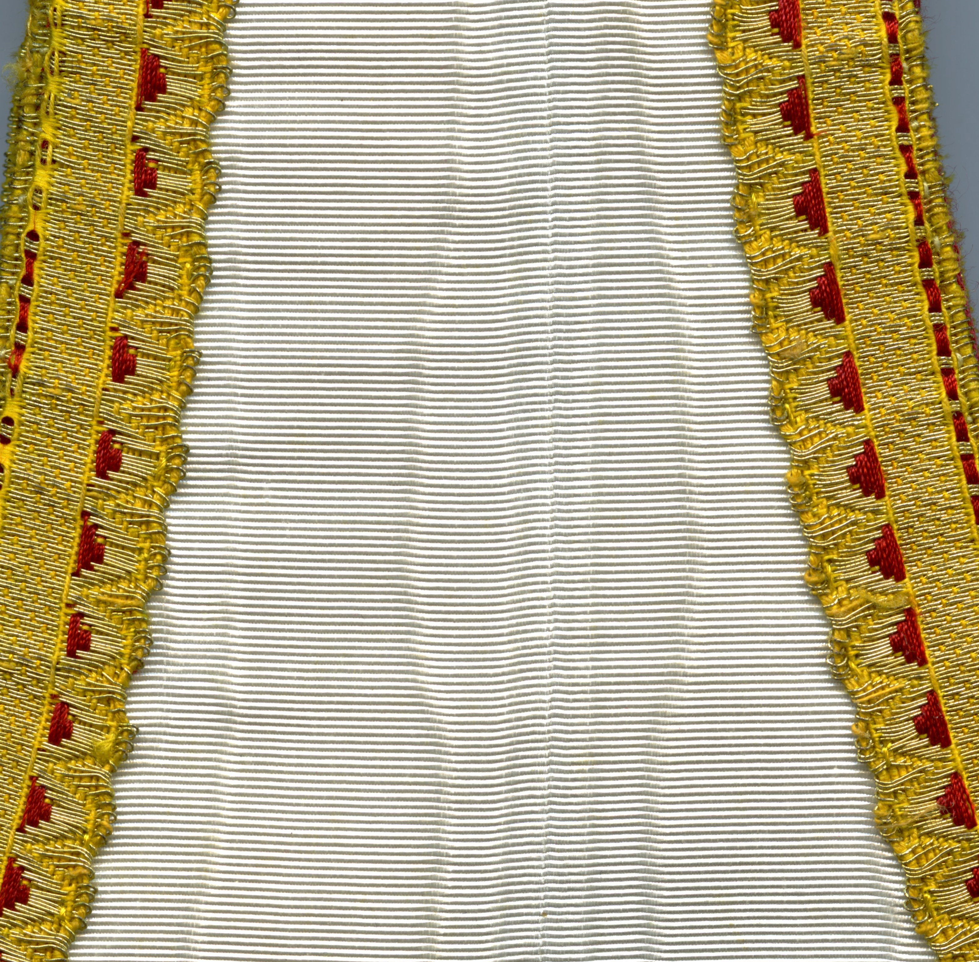 Watered silk